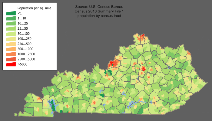 Category:U.S._State_Population_Maps category:Kentucky maps Kentucky population density map based on Census 2010 data. See the data lineage for the process description.